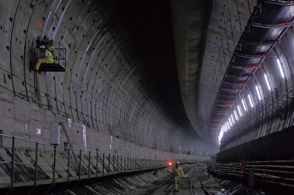 Tunnel M30 This photograph can be used for publications, including this copyright statement: “©PromoMadrid, author Max Alexander”. Esta fotografía puede usarse en publicaciones, incluyendo la declaración “©PromoMadrid, autor Max Alexander”.